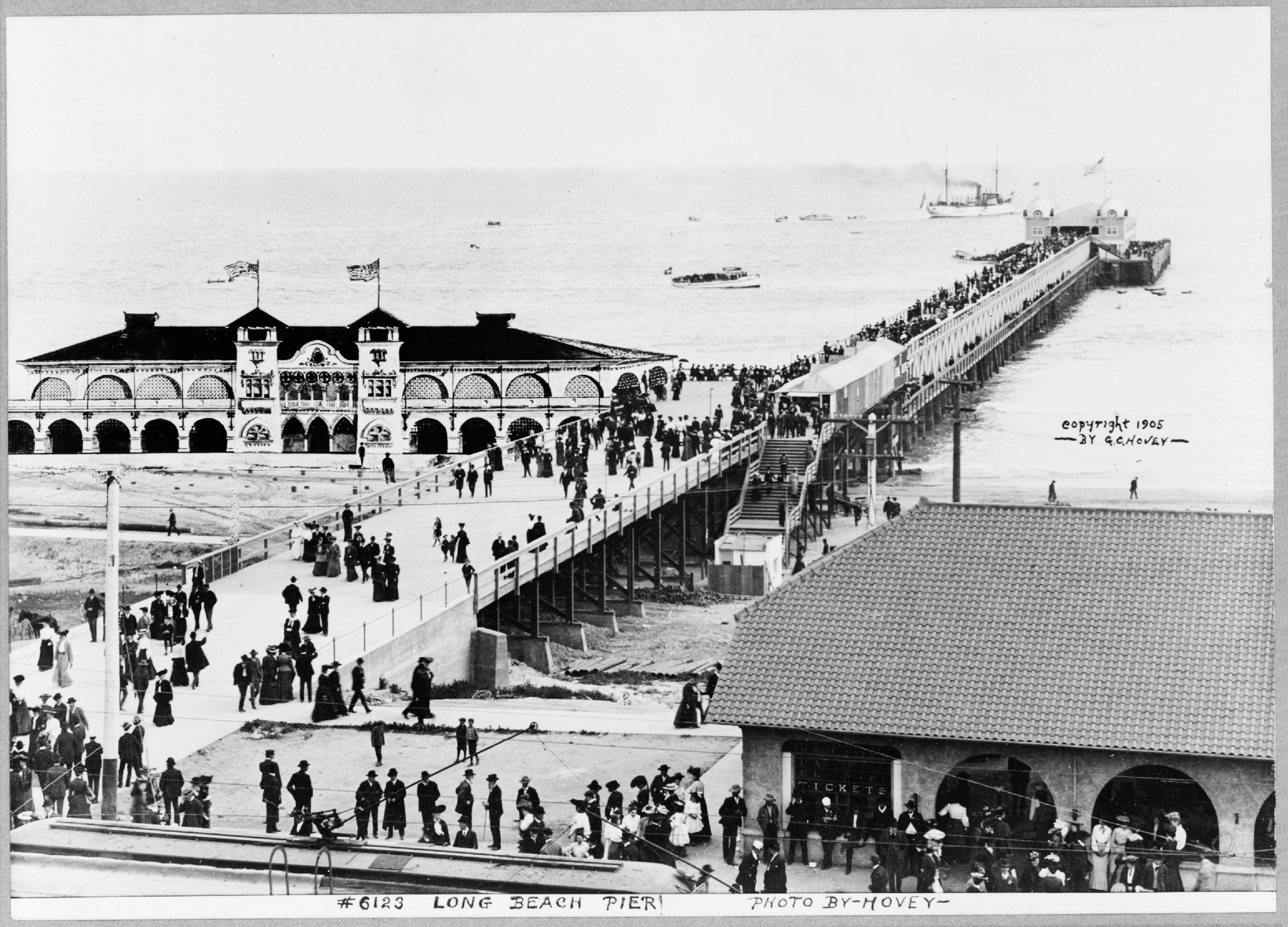 Bird's-eye view of pier, Long Beach.